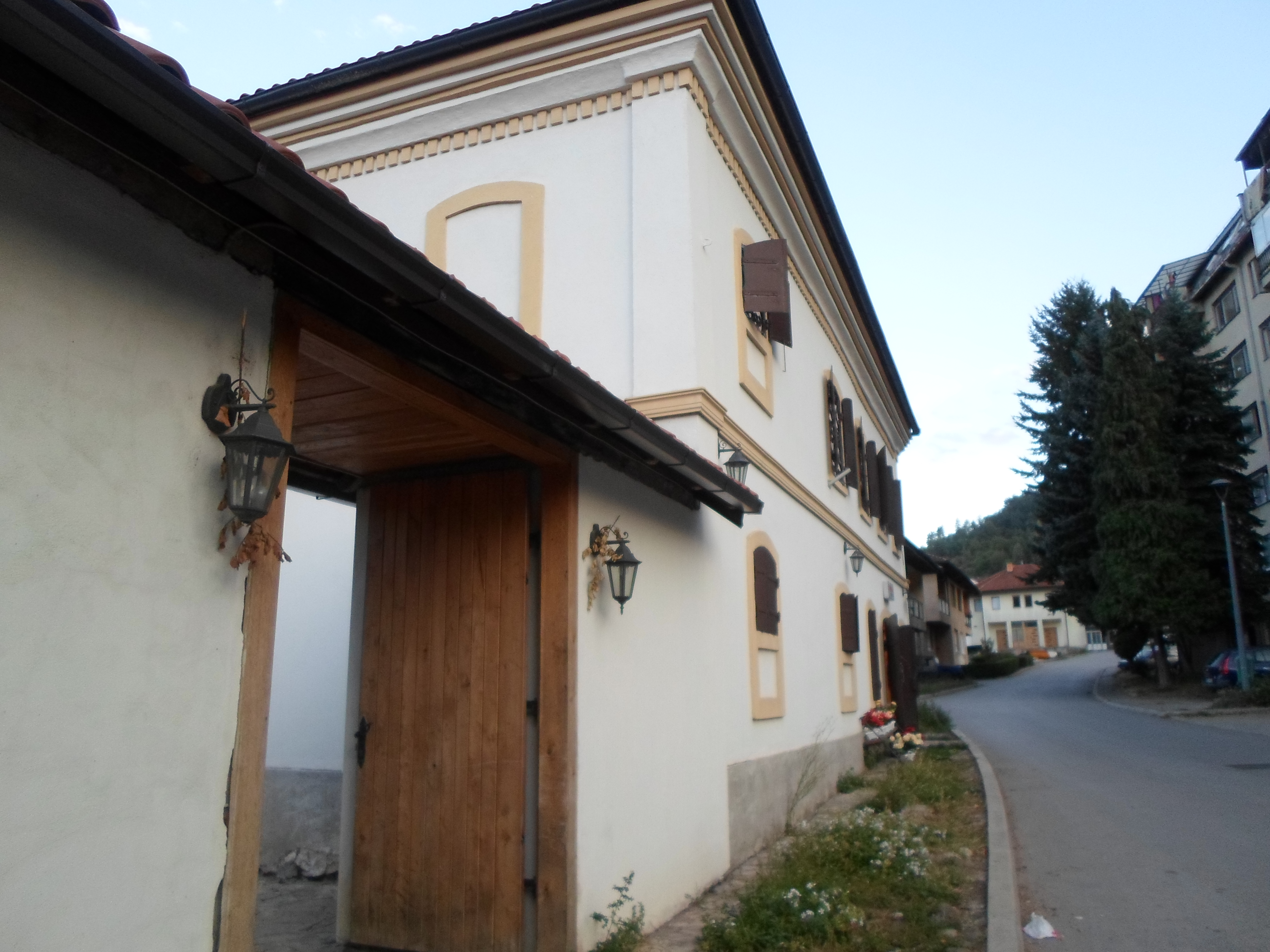 Кућа Милана Хаџивуковића, Фоча ID добра: NKD713